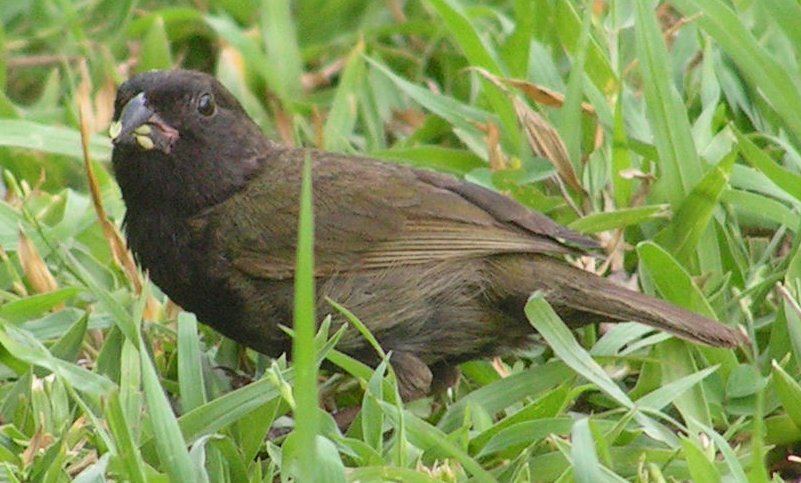 Male Tiaris bicolor photographed on St. Lucia